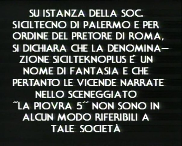 More real than reality. "Upon request of the firm 'Siciltecno' from Palermo and by order of the judge of Rome we declare that the name Sicilteknoplus is a fantasy name and therefore the story narrated in the TV serial 'La Piovra 5' is not in any way related to that firm.